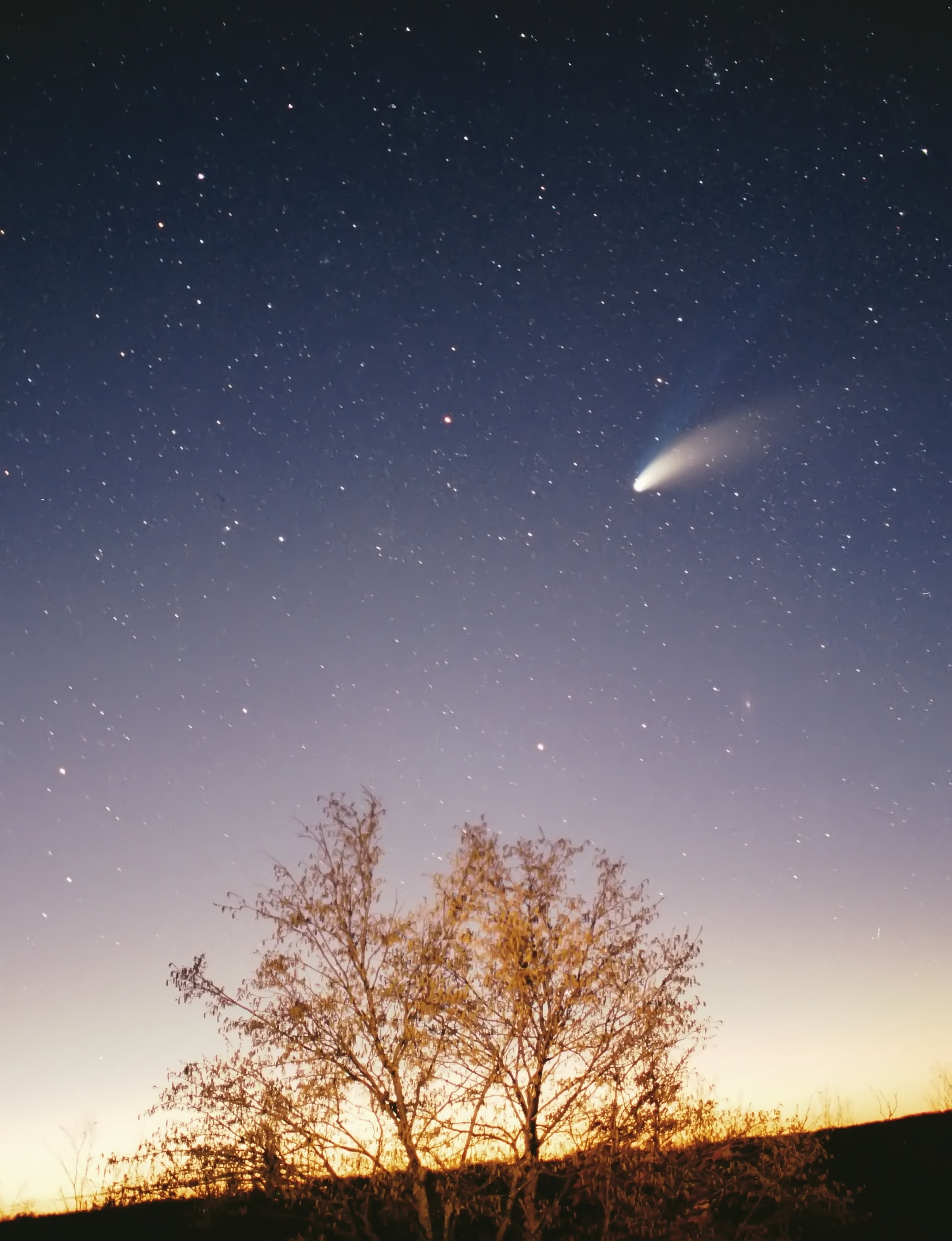 Photo of the comet Hale-Bopp above a tree. This picture was taken in the vicinity of Pazin in Istria/Croatia during a short easter holiday. The tree was illuminated using a small flashlight. To the lower right of the comet the Andromeda Galaxy M31 is also faintly visible. Technical information regard this photo: Lens: Nikon 35mm f/2 Film: Kodak Royal Gold 400 Exposure: 2 min at f/2